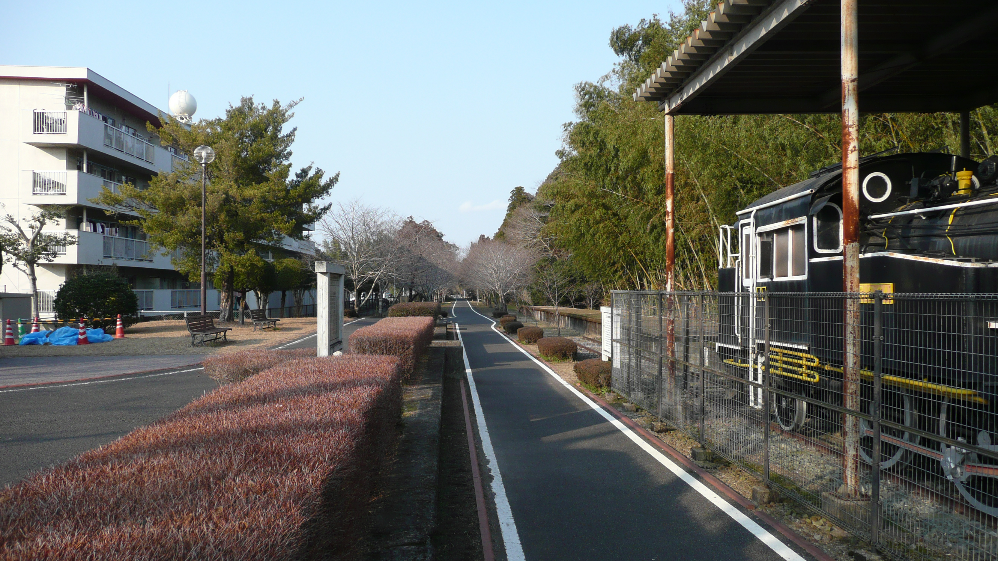 The ruin of Imamachi Station (JNR Shibushi Line, 1925-1987) This station was located in Miyakonojo City, Miyazaki Prefecture, Japan.